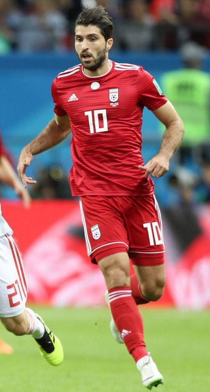 Iran and Spain match at the FIFA World Cup 2018